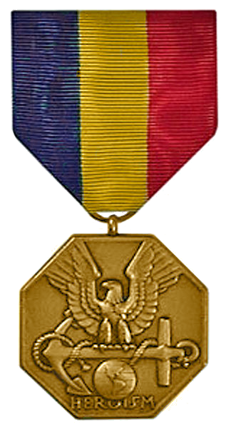 Transwiki approved by: User:Dmcdevit This image was copied from en. The original description was: US NAVY